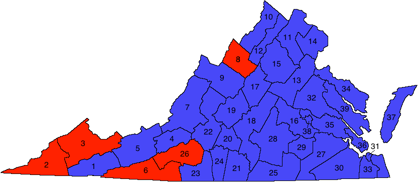 District boundaries of the Virginia Senate in 1912